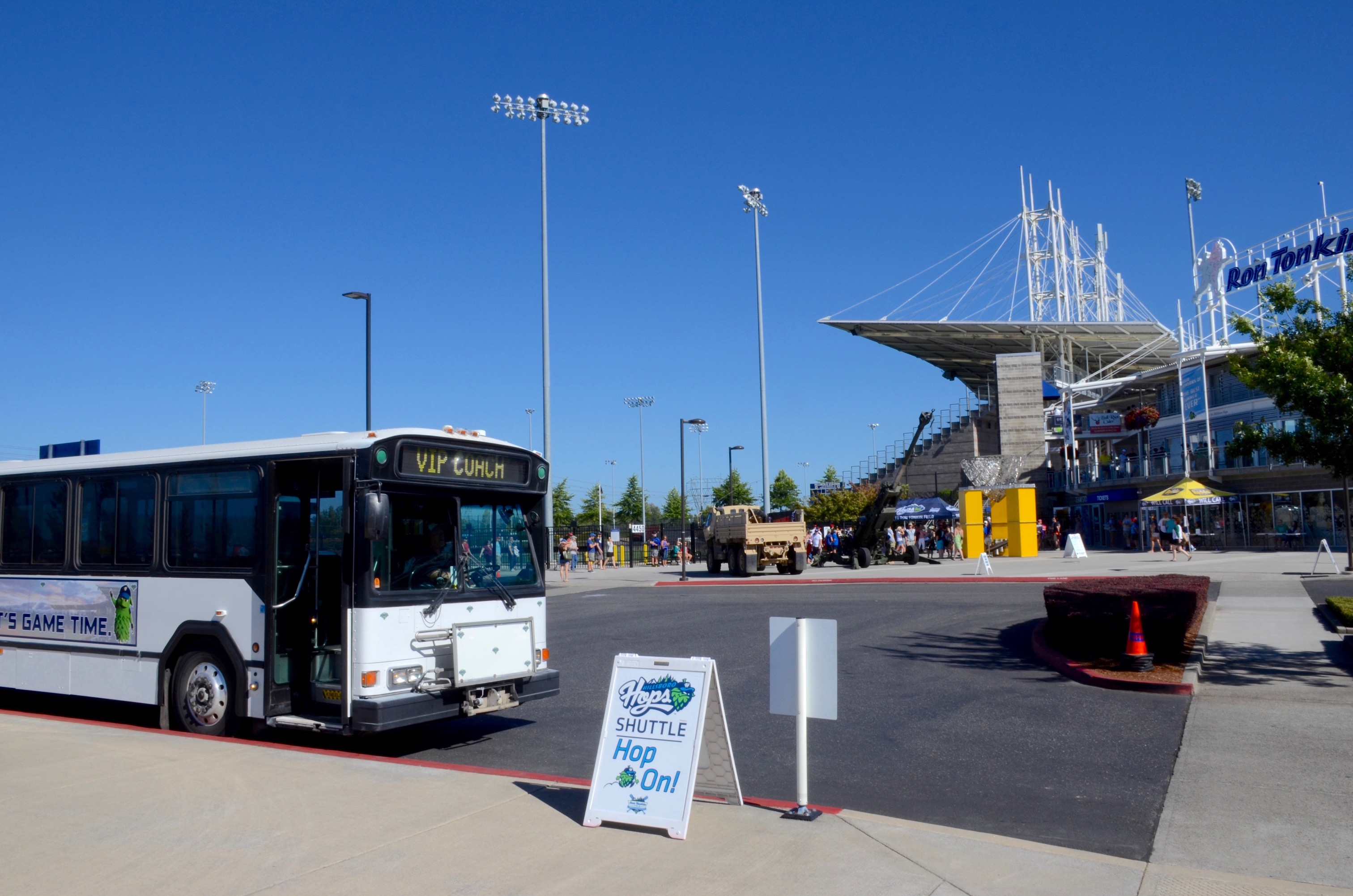 A Hops Shuttle bus at Ron Tonkin Field shortly before the start of a home game of the Hillsboro Hops baseball team. The free shuttle service, which operates only before and after games, connects the ballpark to the nearest MAX light rail station, Orenco/NW 231st Avenue station. The buses are operated (under contract to the Hops) by charter bus company ECOShuttle, which owns a fleet of secondhand transit buses. The bus in the photo is ex-C-Tran 2097 (a 1995 Gillig Phantom), from Vancouver, Washington, and was acquired by ECOShuttle in spring 2016.